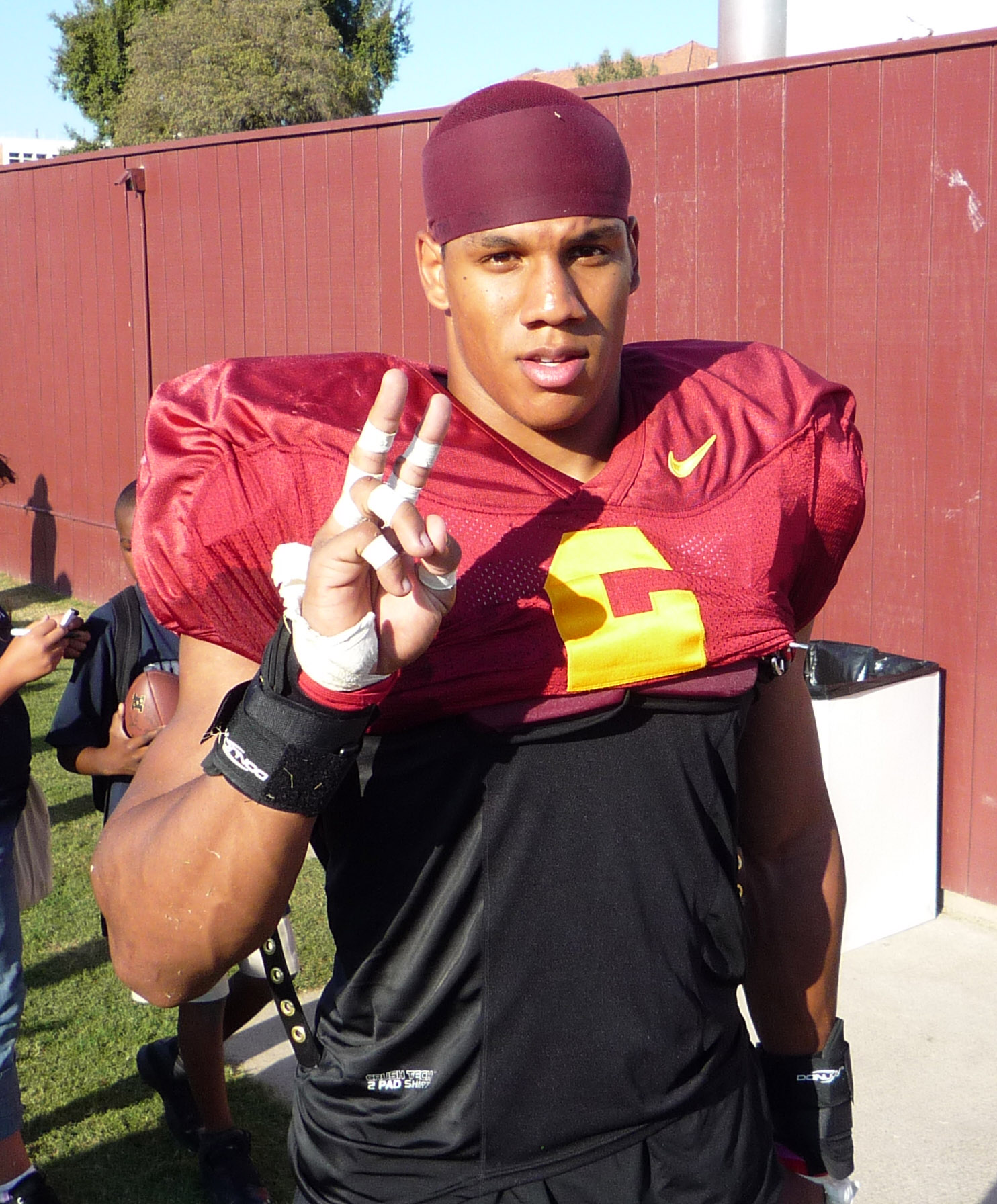 Safety Taylor Mays, after a fall practice preceding the 2008 USC Trojans football season. He is making the traditional USC Trojan "V" for victory hand sign.